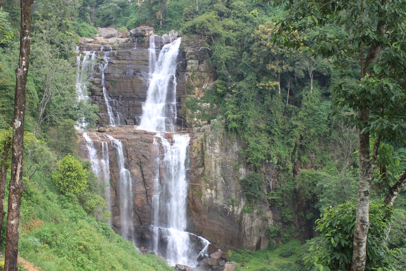 Ramboda water falls - Nuwar Aliya, Srilanka